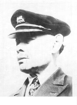 Photographer Unknown Photo taken 1910 Source Settler's Effects # P-988.22.1 [1]